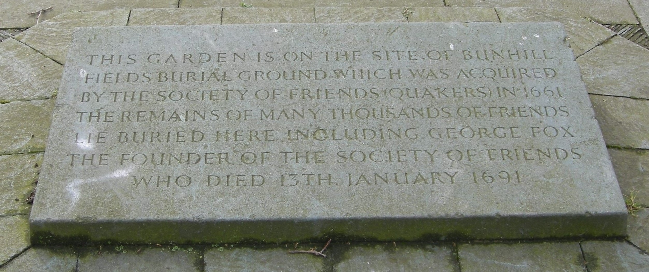 Modern commemorative memorial stone in Quaker Gardens, Bunhill Fields, Islington, London EC 1, recording the site's history as a Quaker burial ground.